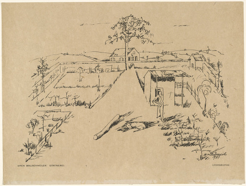 Nursery (Gärtnerei) (plate, preceding p. 353) from the periodical Das Kunstblatt, vol. 1, no. 12 (Dec 1917) Jakob (Jack) Friedrich Bollschweiler (German, 1888-1938)